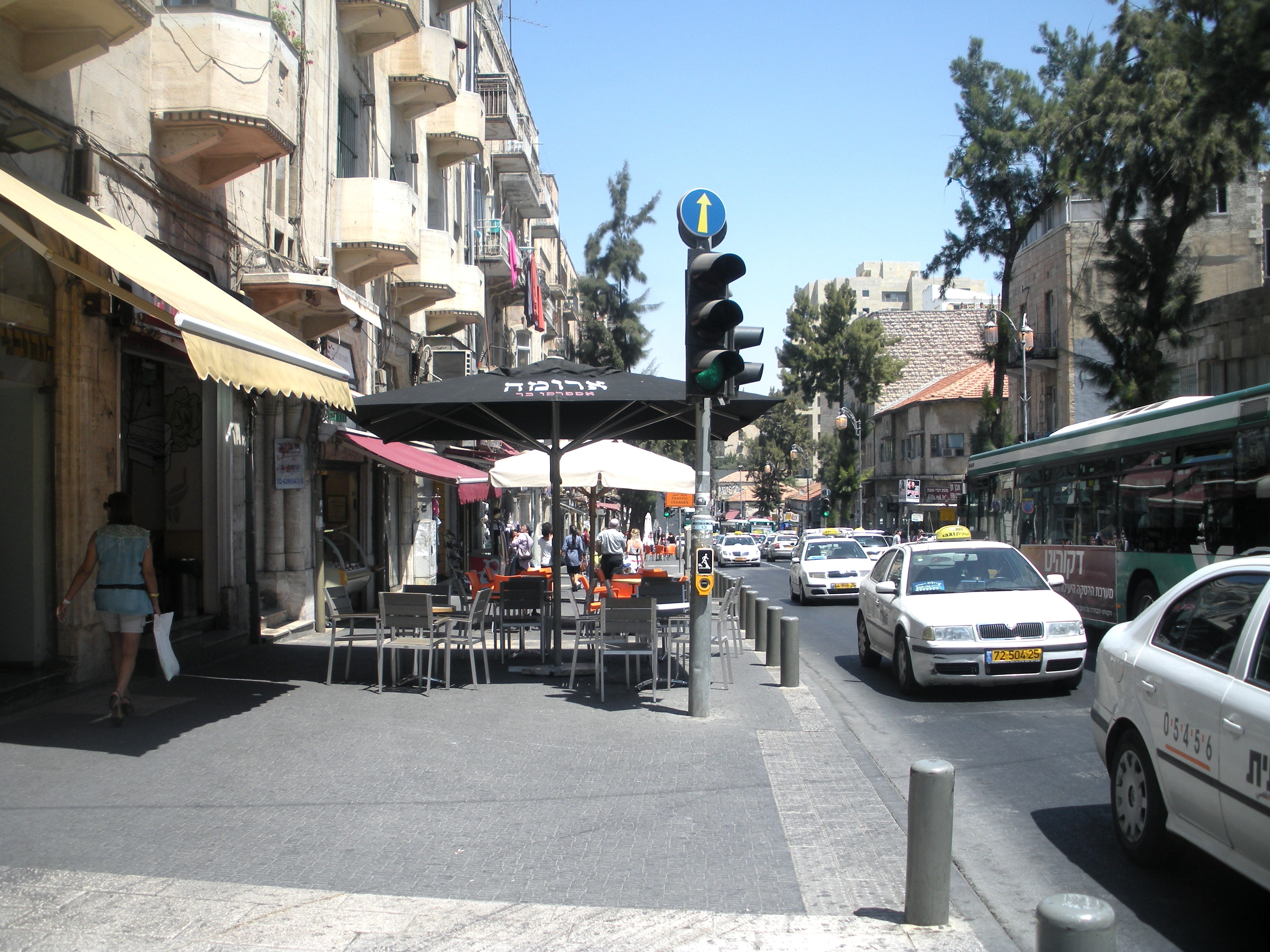 King George Street, Jerusalem, next to the old Mashbir department store